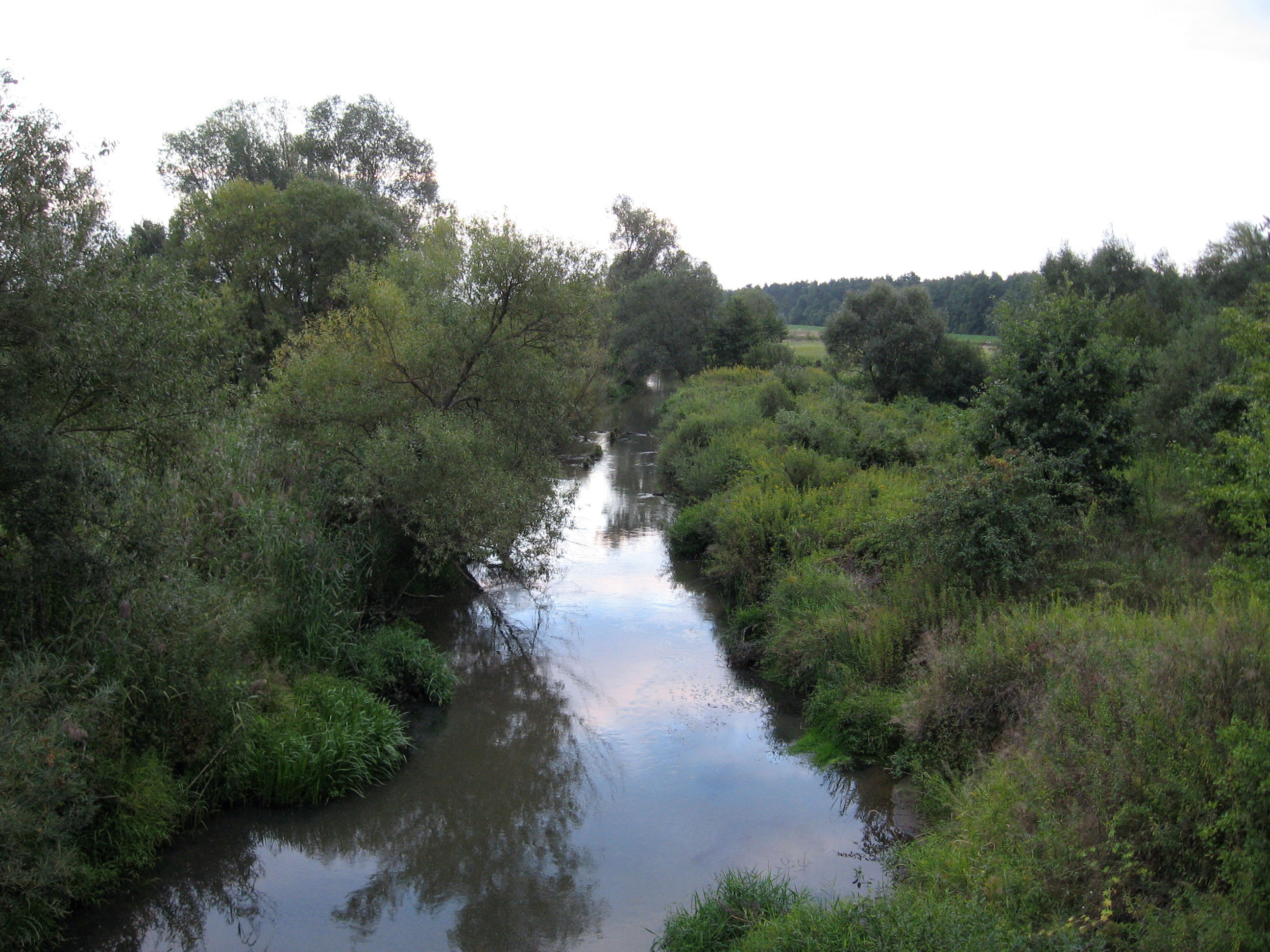 River Łęg near Kępie Zaleszańskie, Poland